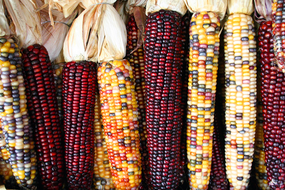 Cobs of corn